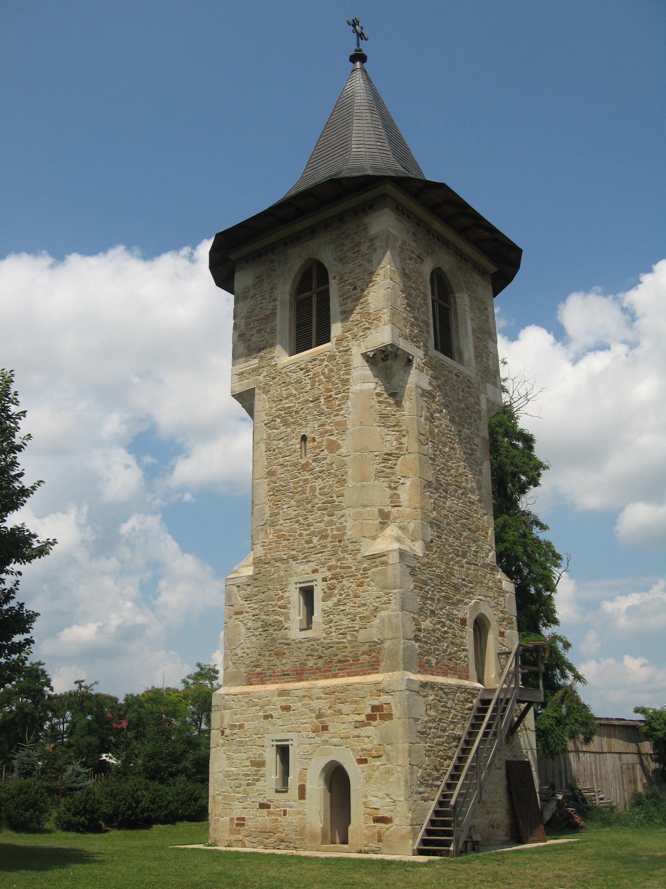 The bell tower of Monastery Popăuţi (Botoşani County, Romania), built in XV century by Stephen the Great 02